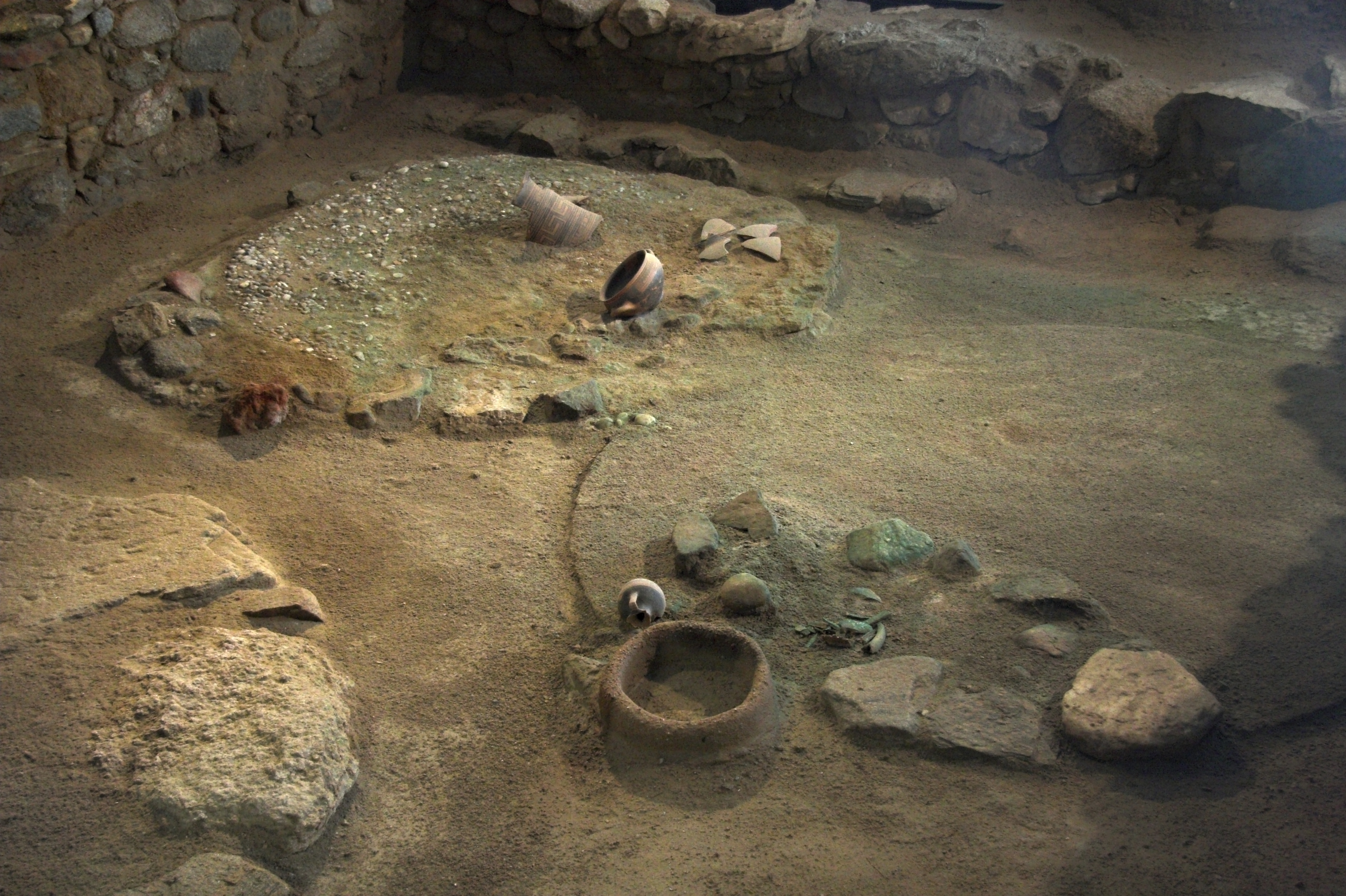 Tumulus with geometric pottery (copy), 8th century BC. Special ancestor worship, see Athenaios (Athenaeus), Deipnosiphistae IX, 410: "Dig a pit to the west of the tomb. Then stand next to the pit, face west, pour water and say the following: the rinsing is for You, those for whom it is right and proper. Then pour myrrh." Grotta, Naxos.